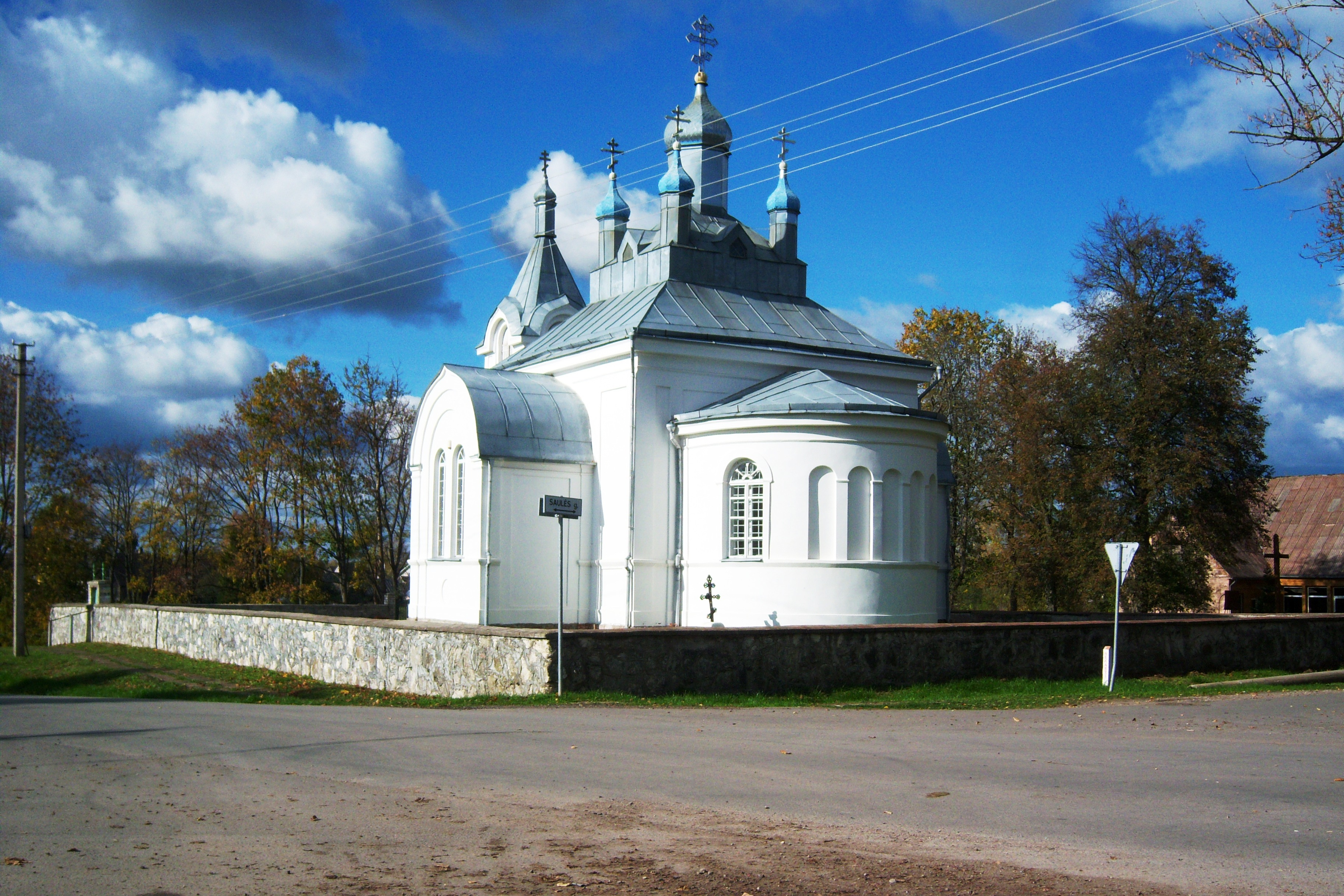 Orthodox Church in Užusaliai, Jonava District, Lithuania